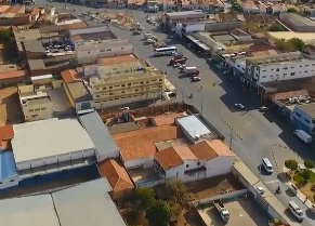 Salgueiro Pernambuco, Brazil